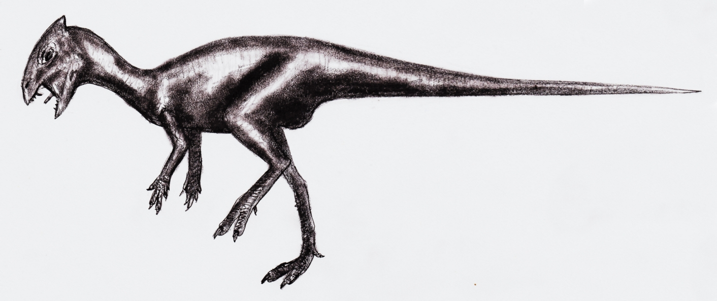 Goyocephale